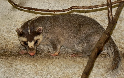 Chinese ferret-badger (Melogale moschata) Bân-lâm-gú: 臭腥猫(Melogale moschata)